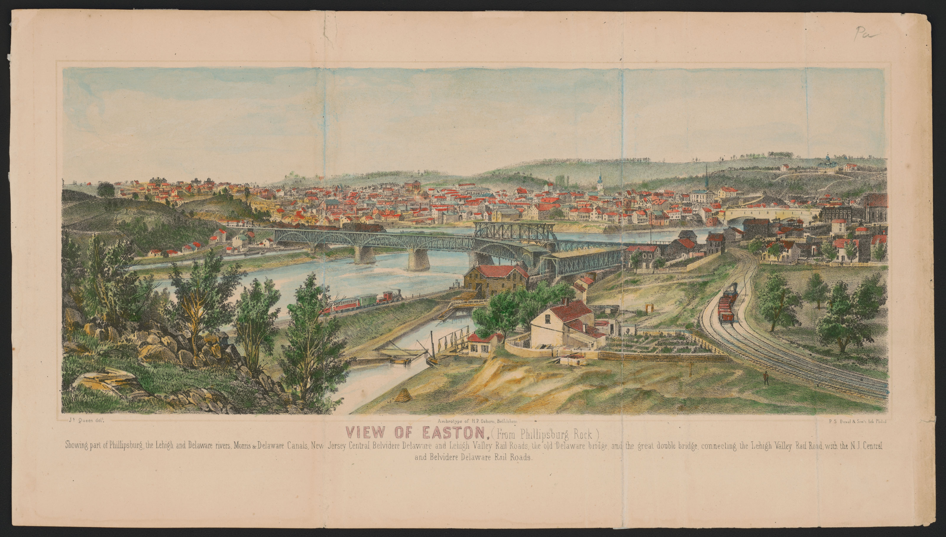 Print shows a bird's-eye view of Easton, Northampton County, Pennsylvania, with a river on the left, canal, railroads and bridges at center, and the community in the background.